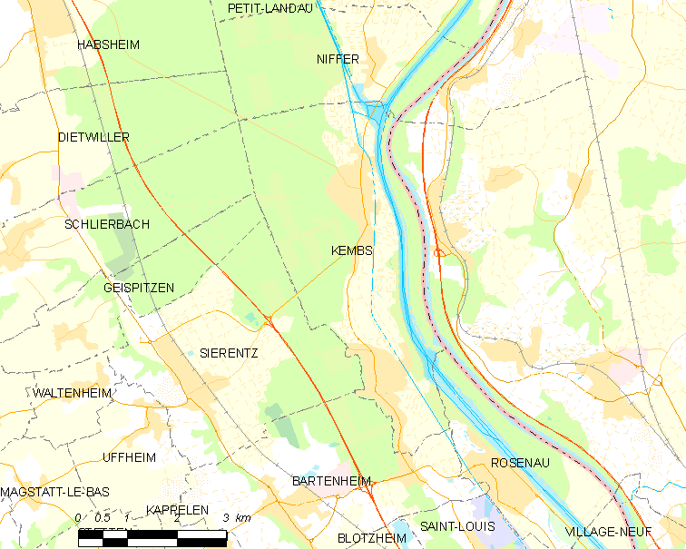 Map of French municipality